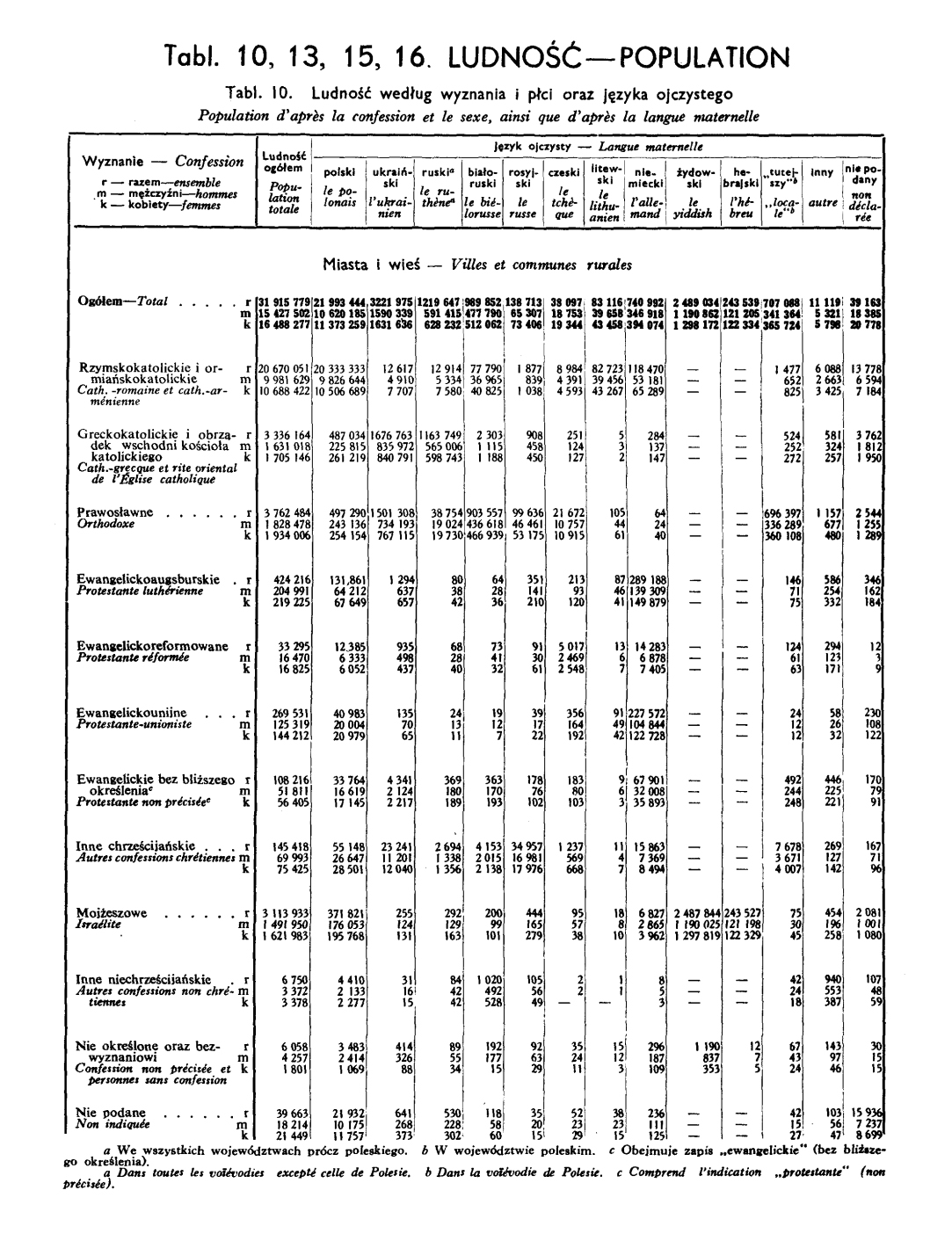 1931 Census of Poland Table 10 Ludnosc- Population-pg.15 The population summary page from this census